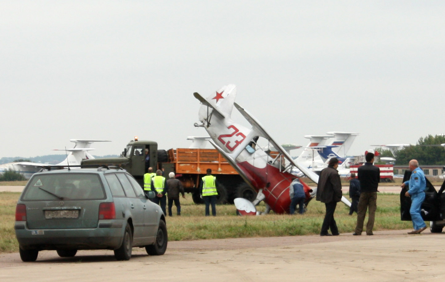 Polikarpov I-15 bis nosed (The international aerospace salon MAKS-2009)